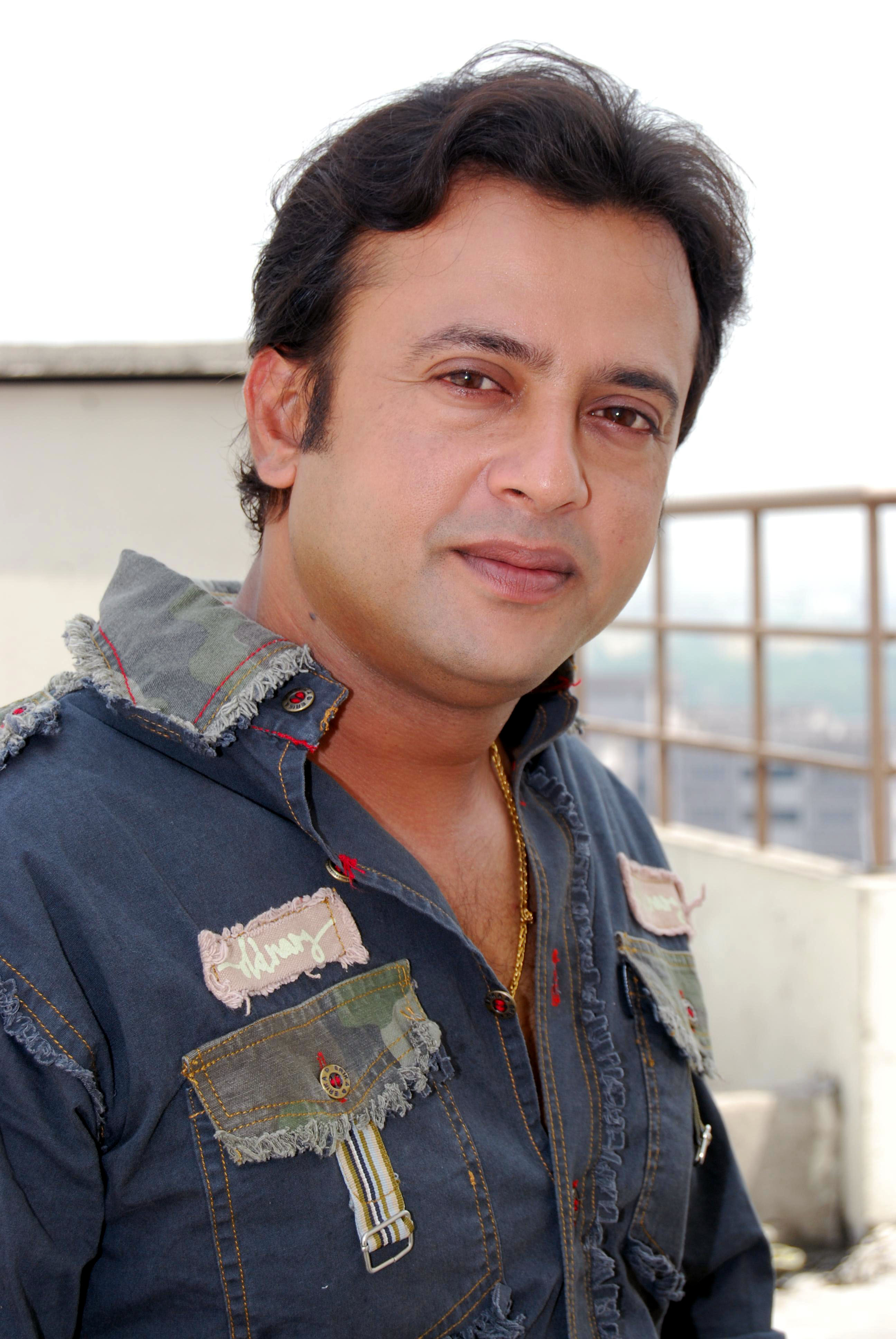 Bangladesh popular film actor Riaz (Riaz Uddin Ahamed Siddique) at Banani, top of the own flat building.